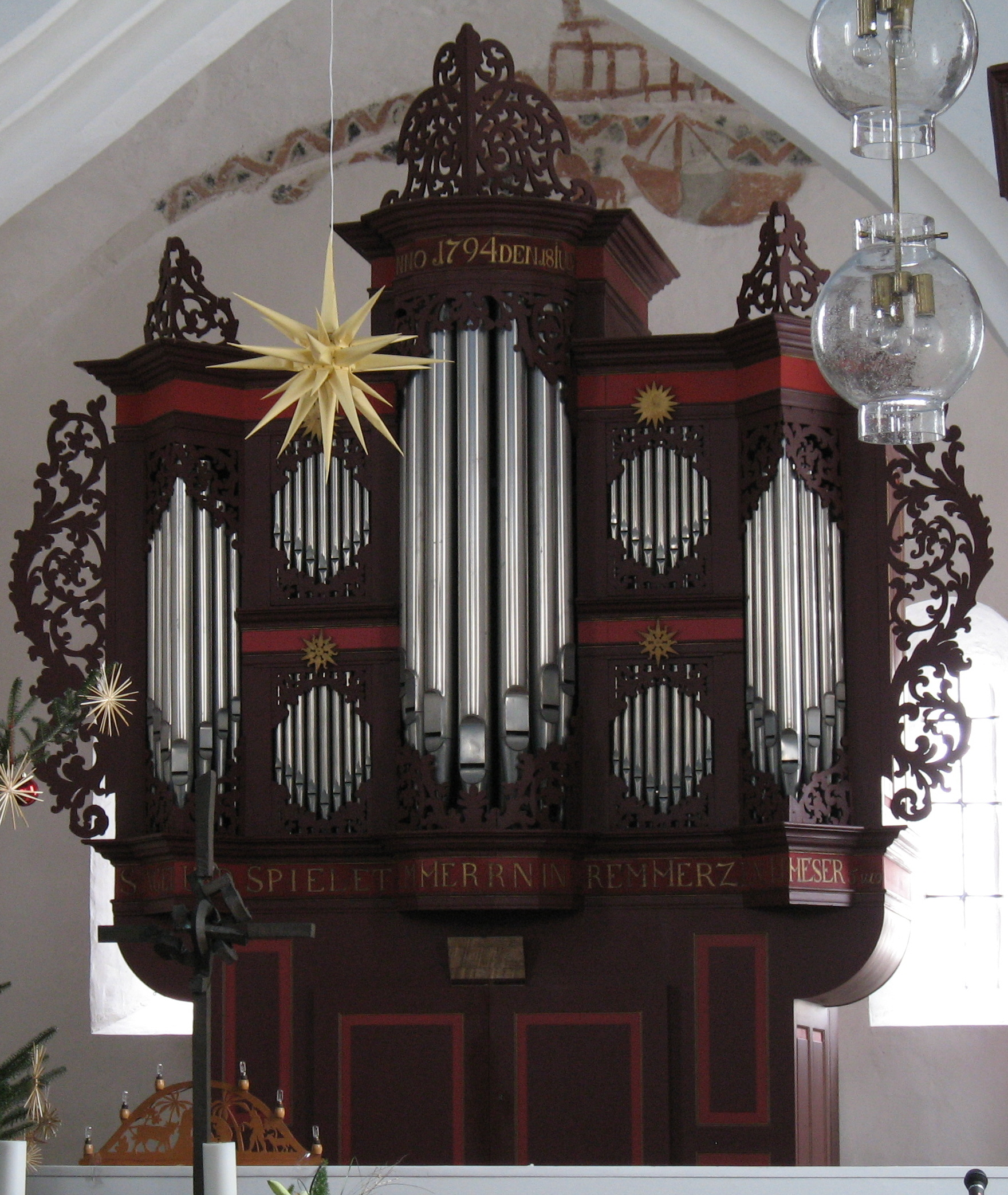 Organ in Aurich-Oldendorf.